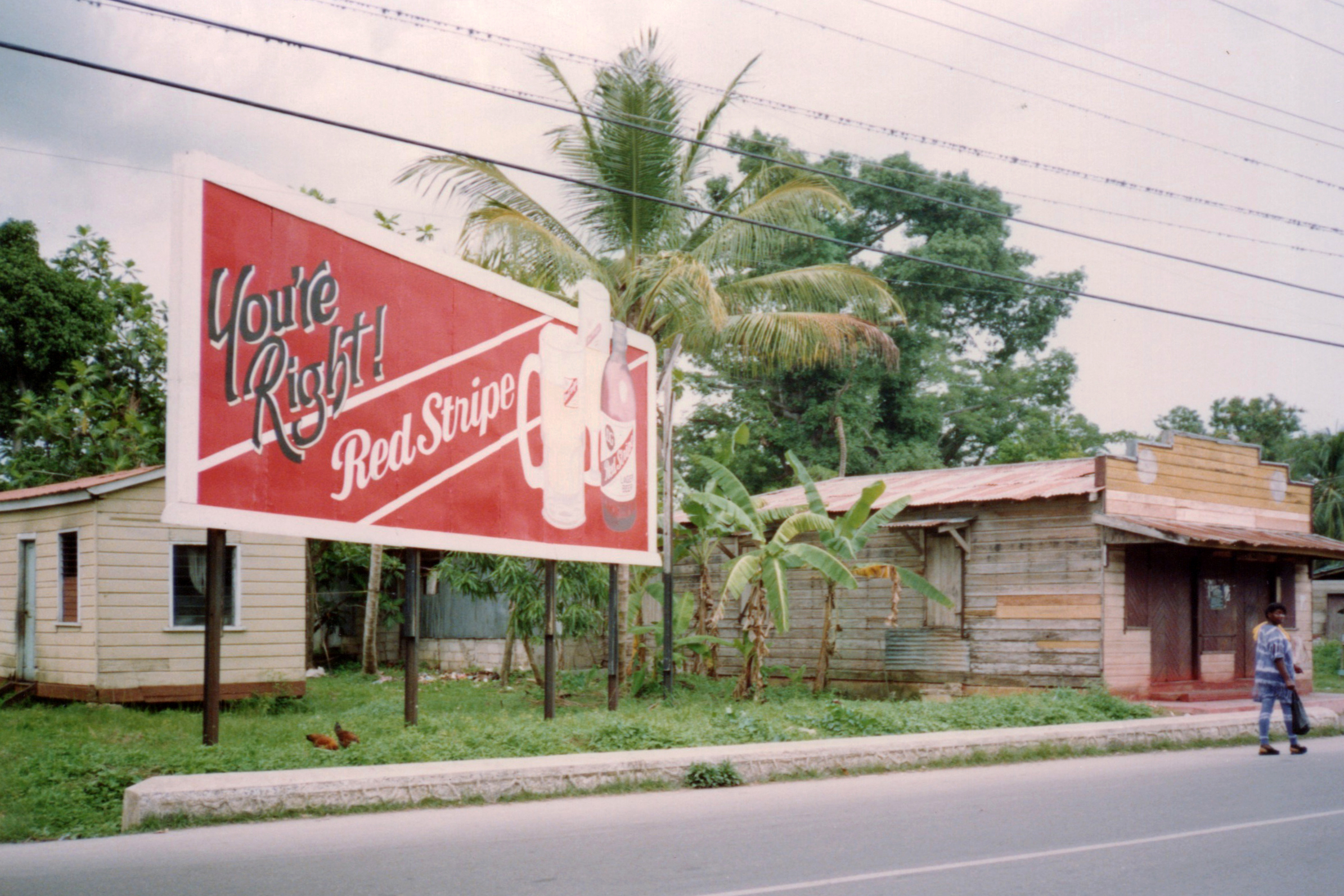 Billboard for the beer Red Stripe in Beckford Street, in Savanna-la-Mar (Jamaica) in 1990.